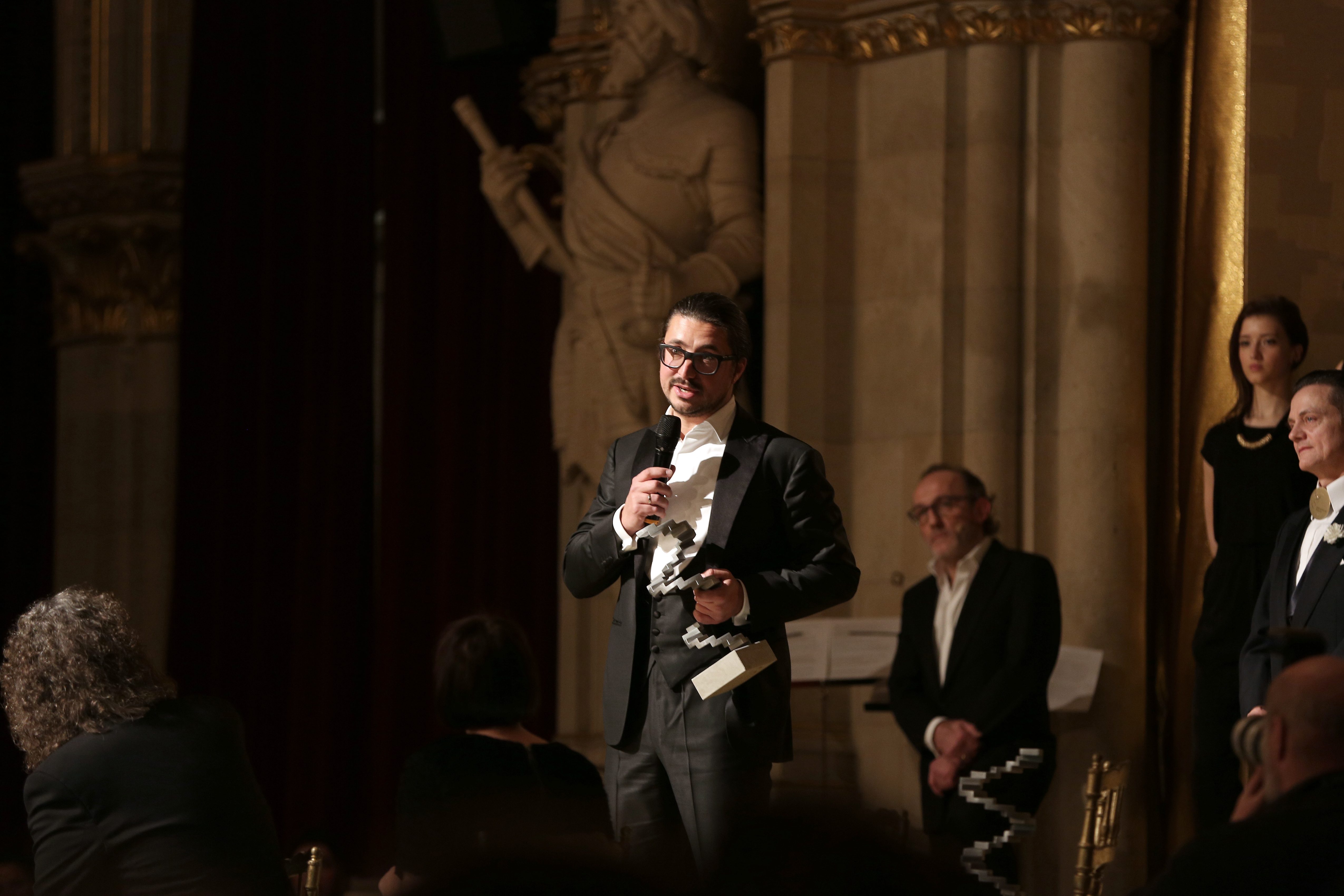 Thomas W. Kiennast (best cinematography for The Dark Valley) at the Austrian Film Awards 2015 at Rathaus, Vienna,Austria.